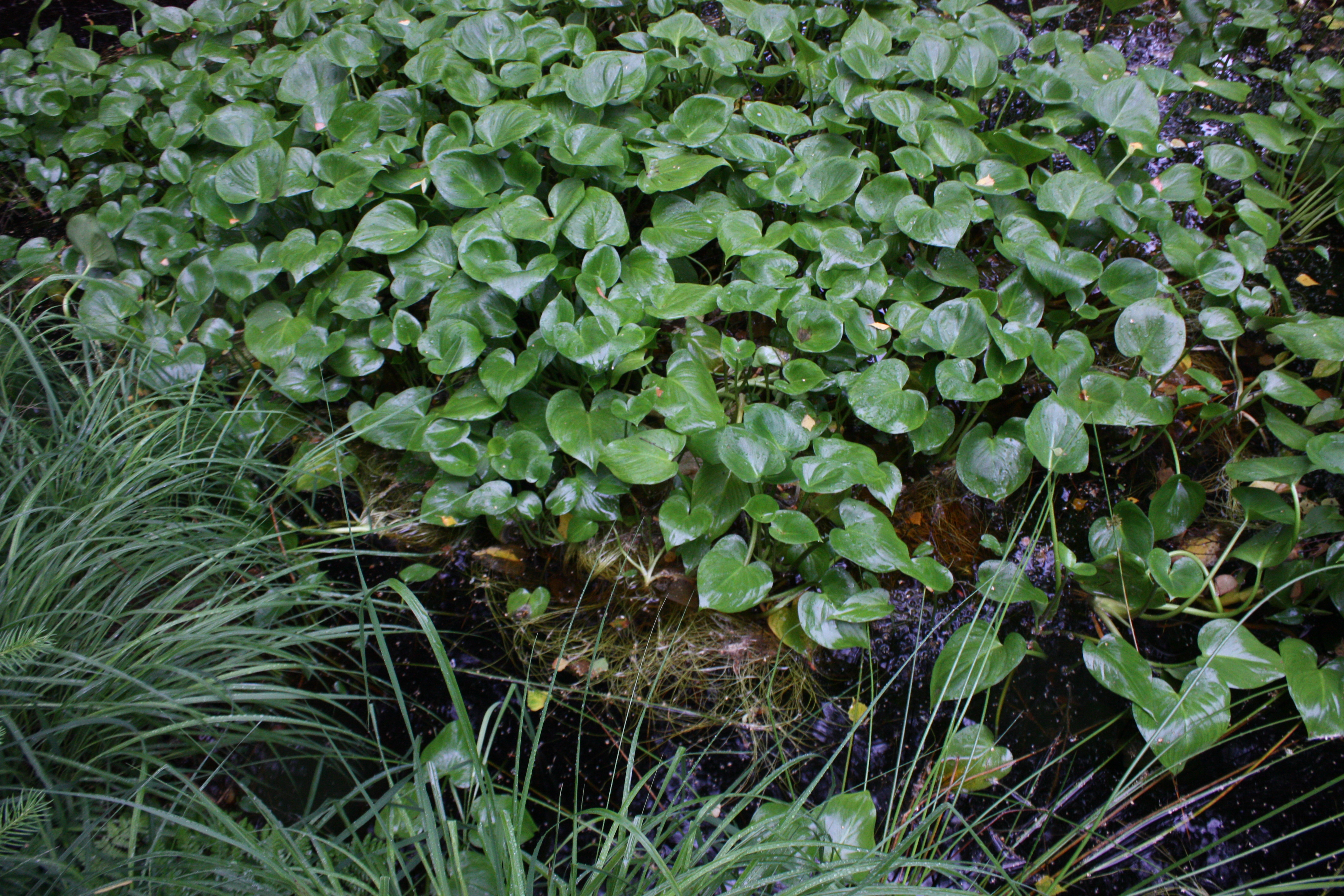 Bog Arum,Calla palustris, Poland, Gać (gmina Główczyce) near forest road to Zarnowska village, Słowiński Park Narodowy.